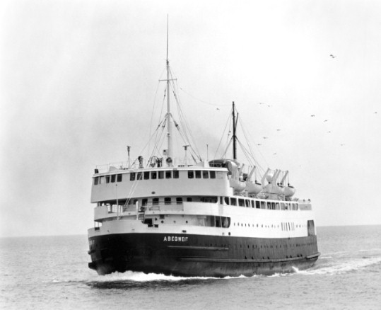 MV Abegweit